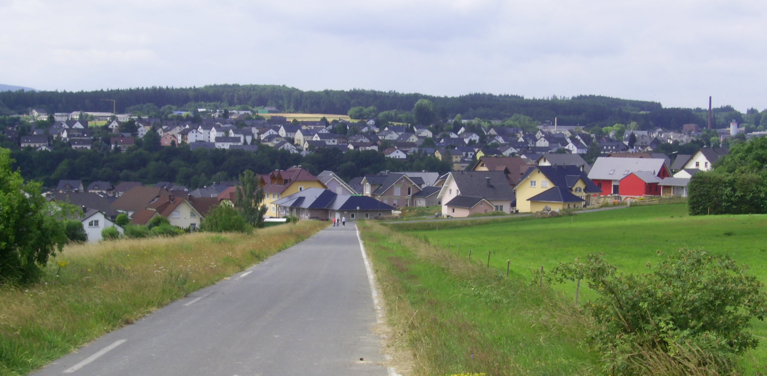 Village SOhren in the Hunsrück landscape, Germany.